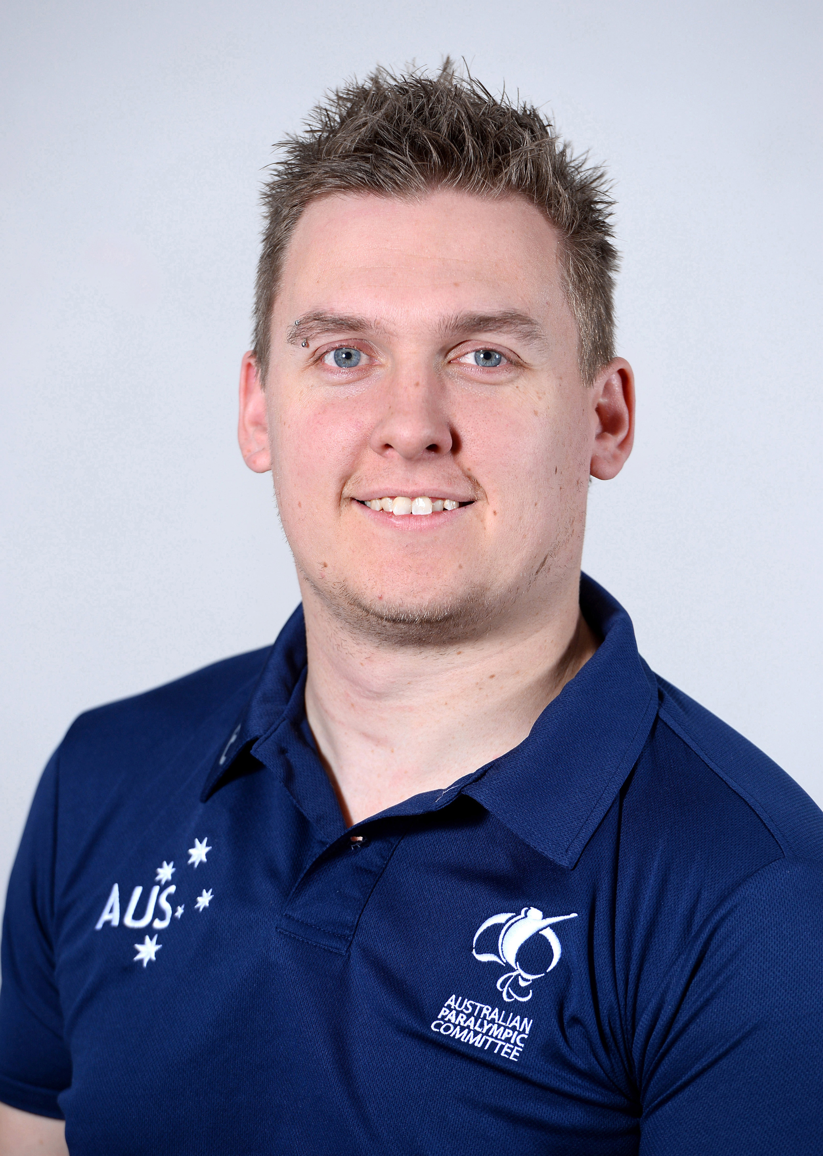 Portrait photograph of Andrew Harrison taken at team processing session for shadow members of 2016 Australian Paralympic team